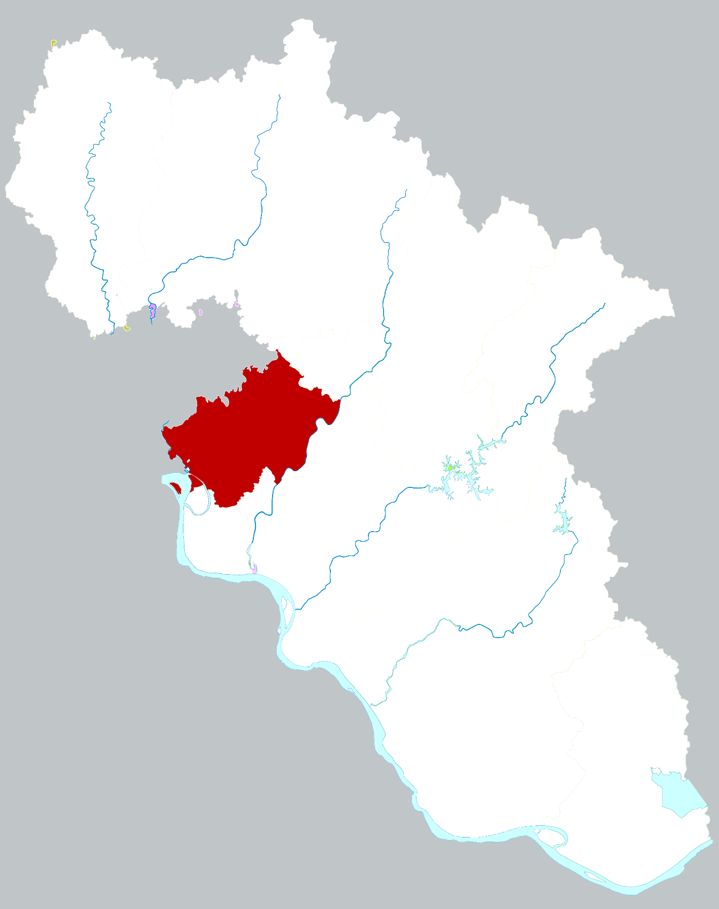 Location of Tuanfeng county in Huanggang city, China